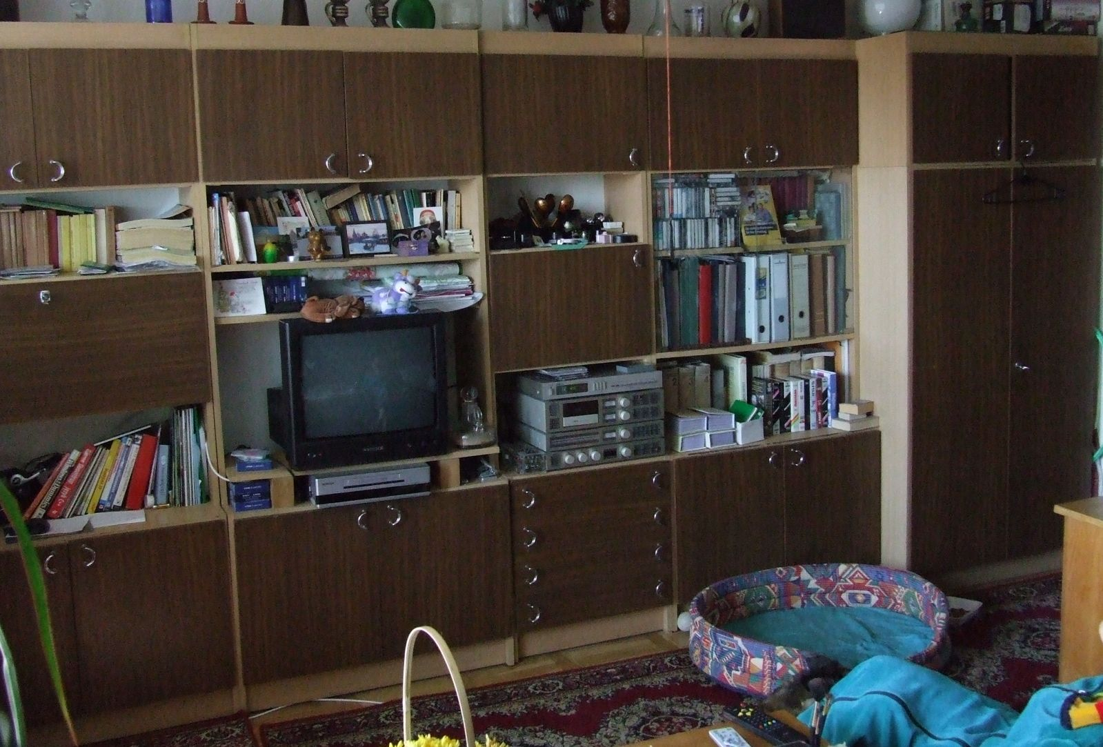 Example of a set of furniture popular in the 70s and 80s in Poland. The set was usually made of bases and tops, in matching styles (fronts, handles), and was meant to cover the entire wall (hence the term: mebel (furniture) + ścianka (wall) = furniture wall). Made in few varieties and often low quality, but a staple in many households nonetheless.